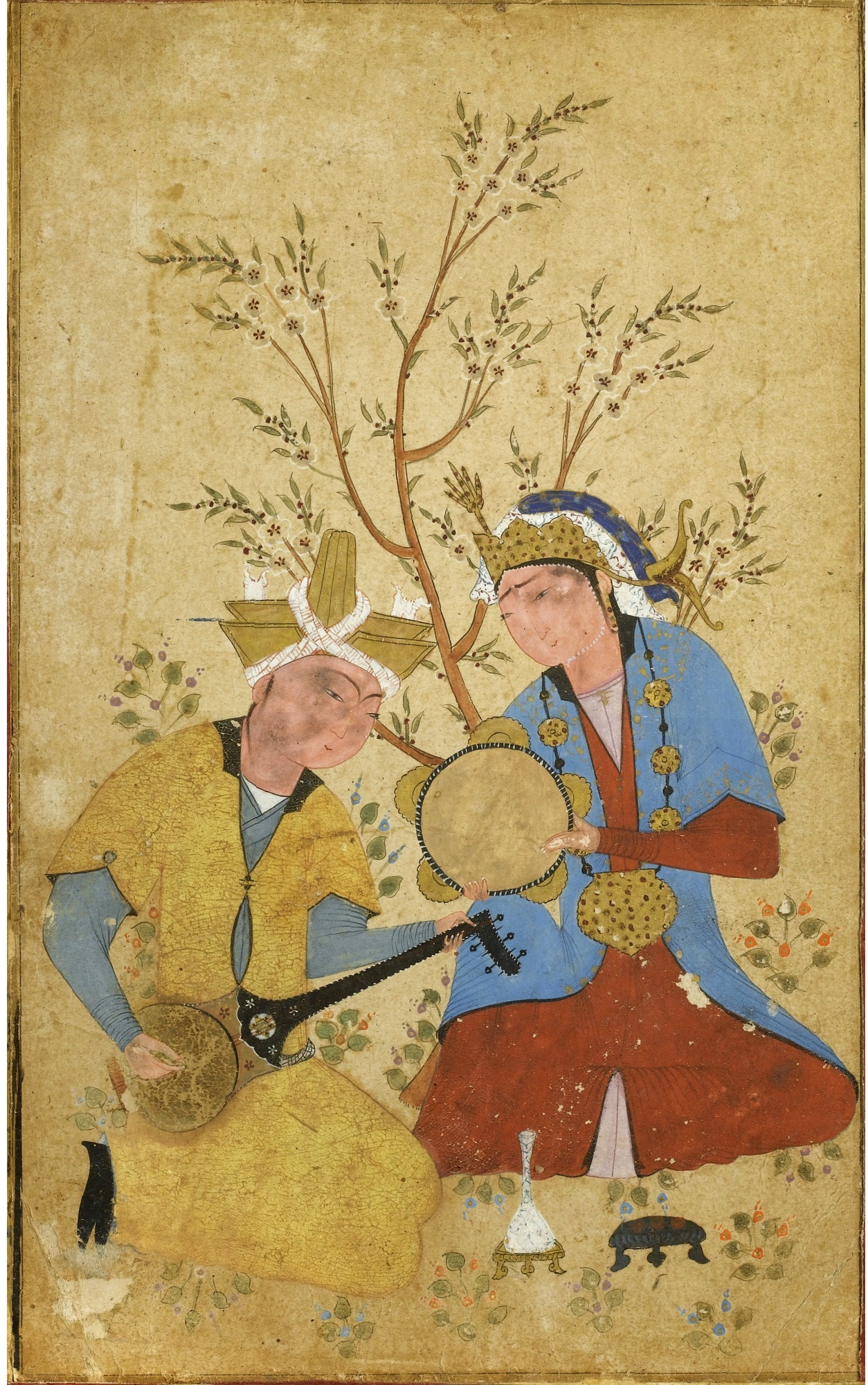 TWO MUSICIANS SEATED UNDER A FLOWERING TREE c. 1550, Private Collection, USA.